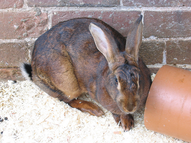 Belgian Hare